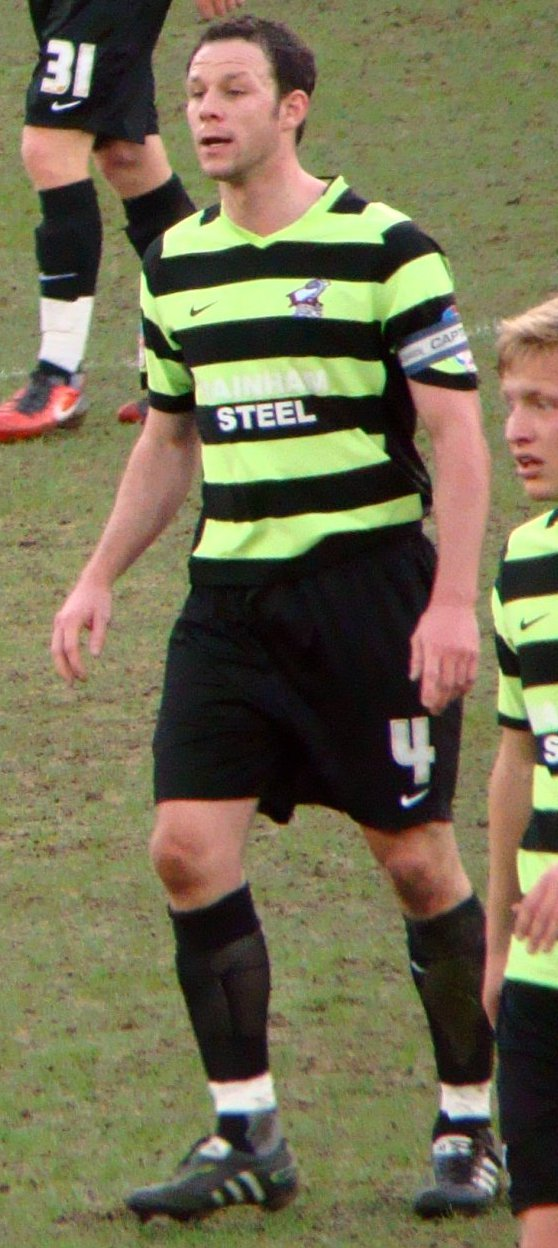 12/02/11 Cardiff V Scunthorpe, Championship, Cardiff City Stadium, Cardiff, Wales